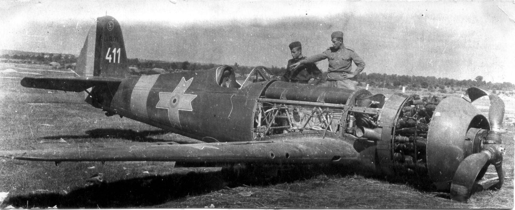 Russian soldiers inspecting a crash landed IAR-81C